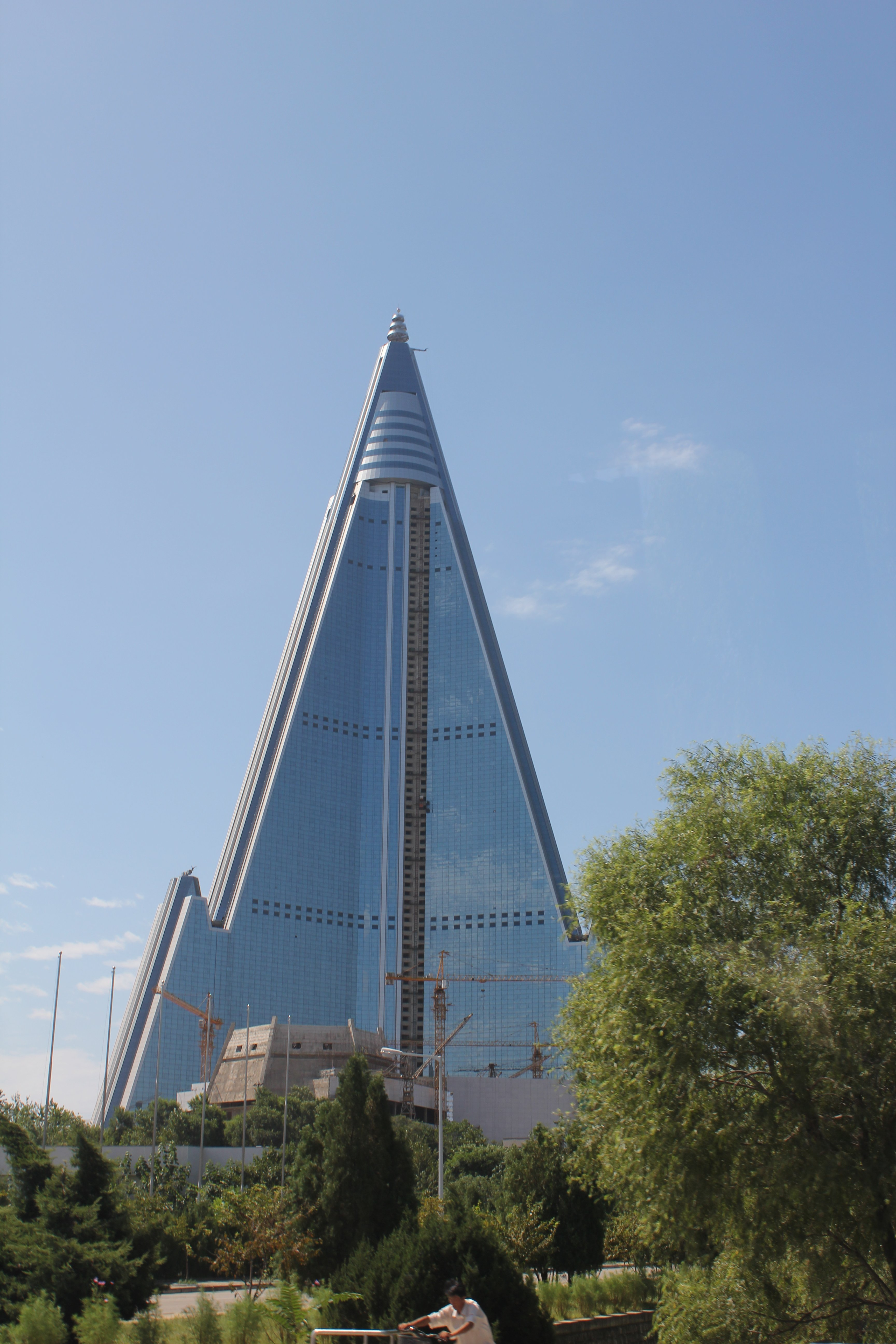 Ryugyong Hotel photographed on 4 September 2011. The facade works were still not completely finished.